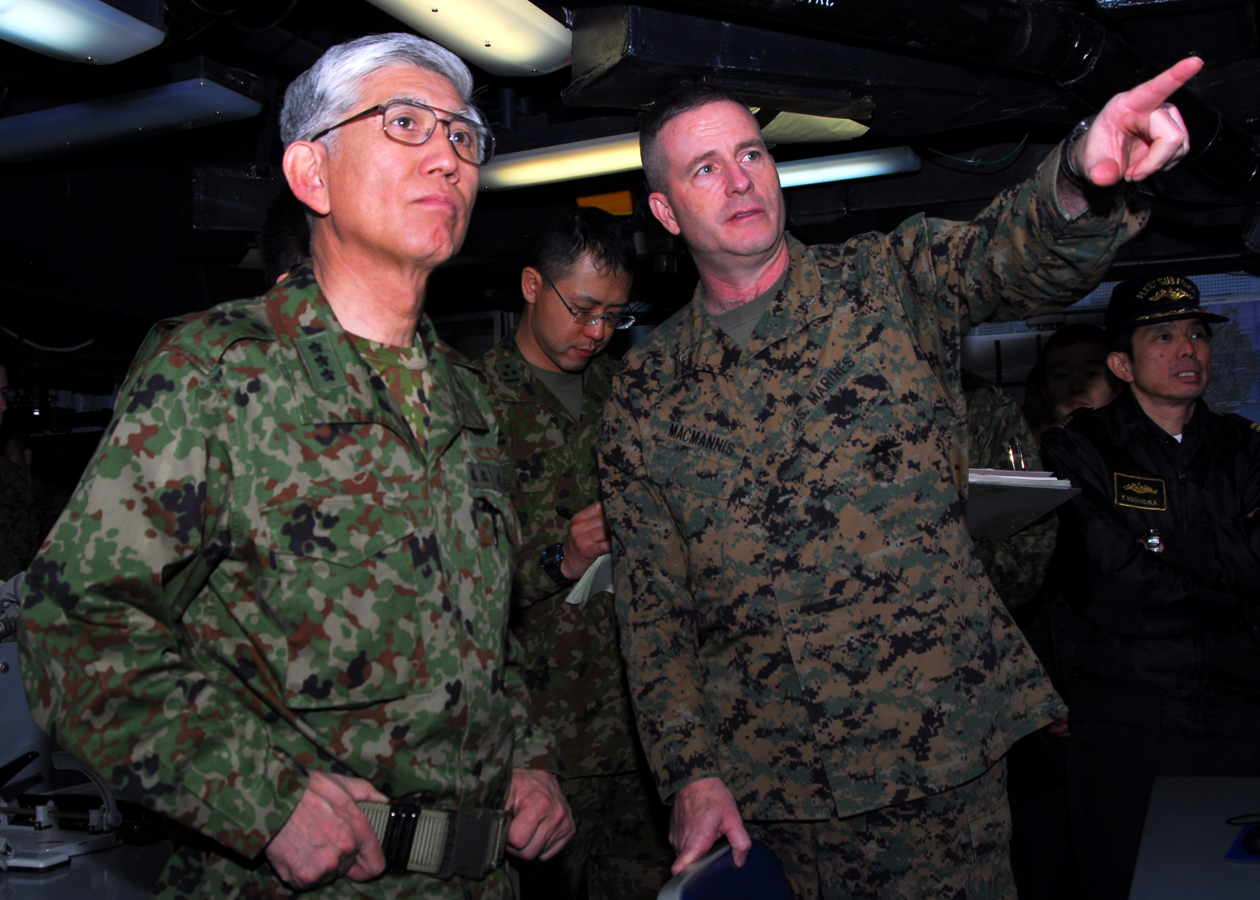 PACIFIC OCEAN (March 31, 2011) Col. Andrew MacMannis, commanding officer of the 31st Marine Expeditionary Unit (31st MEU), discusses humanitarian assistance operations with Lt. Gen. Eiji Kimizuka, commanding general of Joint Task Force Tohoko, aboard the forward-deployed amphibious assault ship USS Essex (LHD 2). Essex and the embarked 31st MEU is operating off the coast of Kesennuma in northeastern Japan in support of Operation Tomodachi. (U.S. Navy photo by Mass Communication Specialist 2nd Class Eva-Marie Ramsaran/Released)